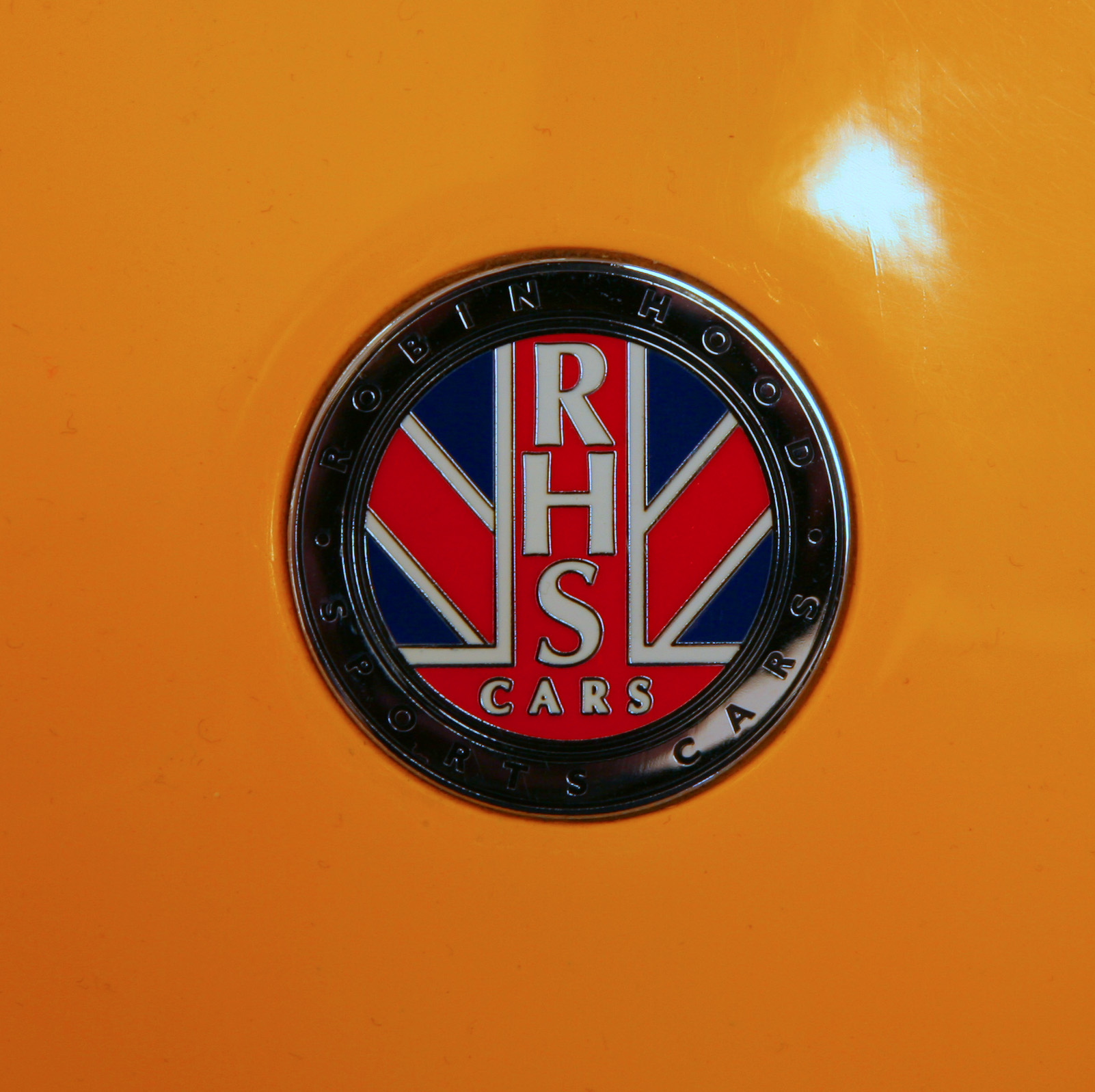 Robin Hood Sports Cars